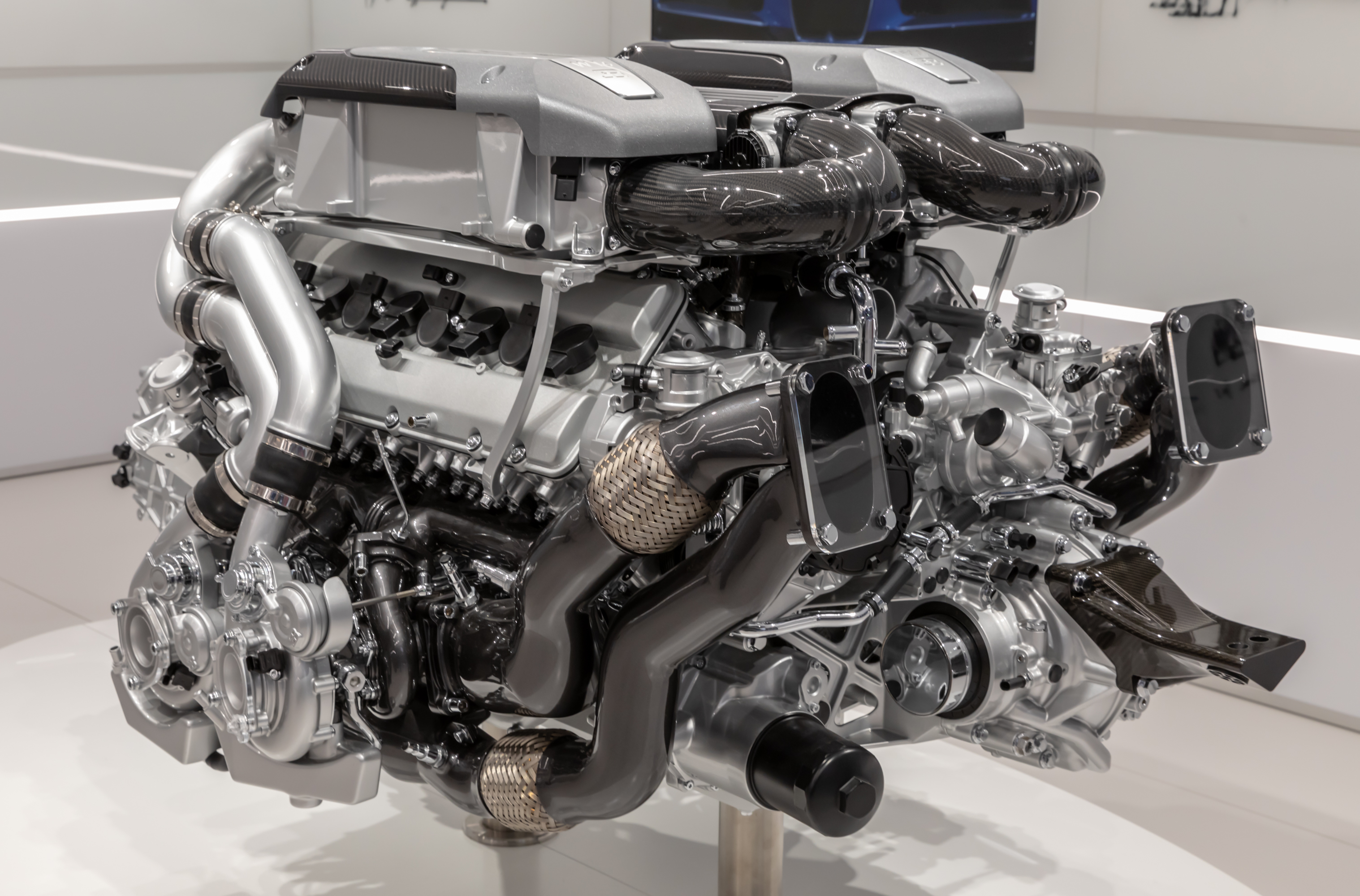 Geneva International Motor Show 2019, Le Grand-Saconnex